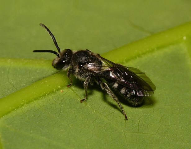 Lasioglossum sexnotatum, male. Location: Rhenen - Blauwe Kamer (The Netherlands)